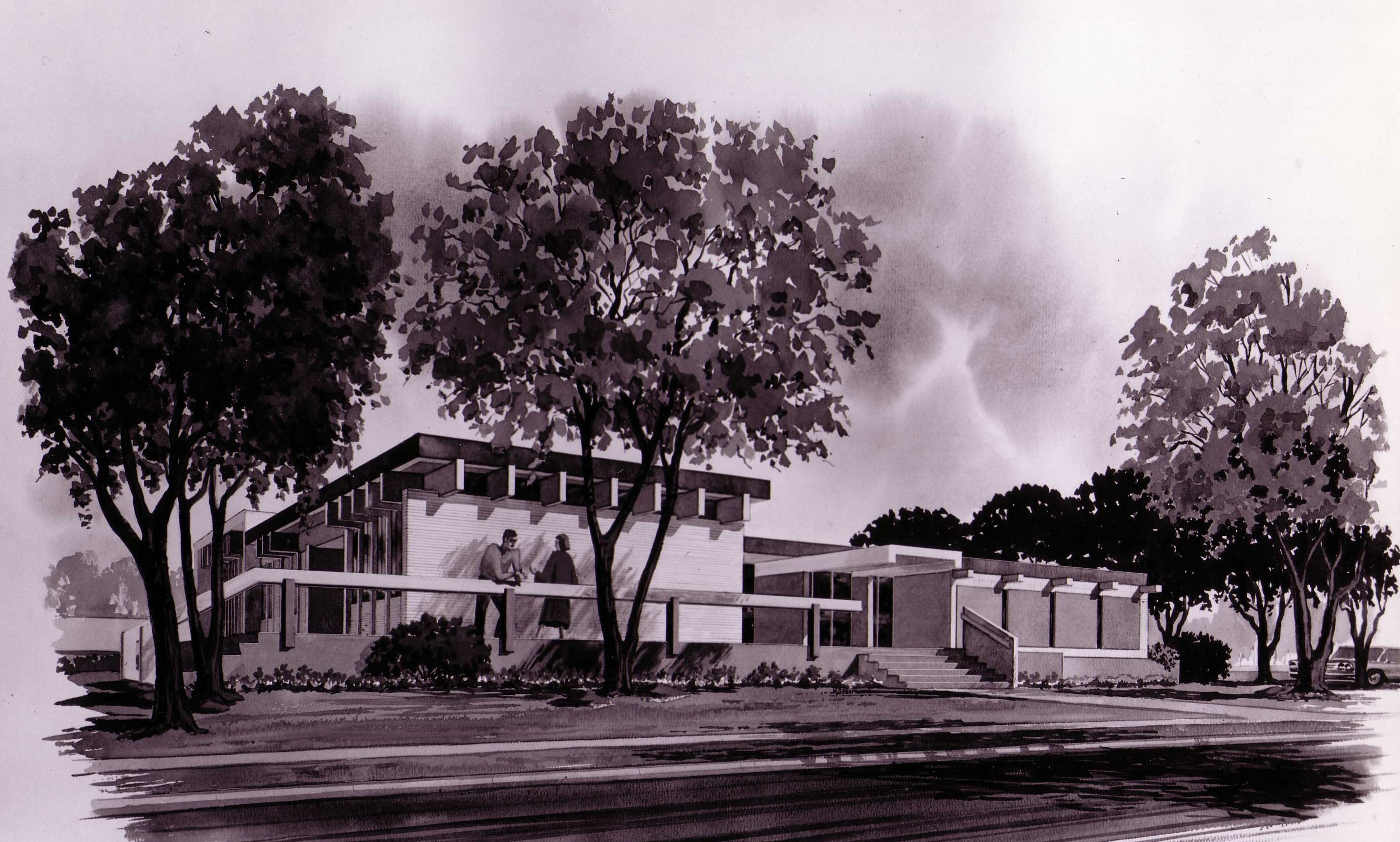 Bemis Library in Littleton,Colorado